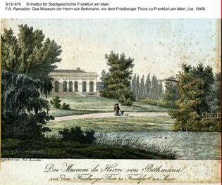 1845 woodcut by F.A. Ramadier of Bethmann museum in Frankfurt, from the public archives of the city of Frankfurt.